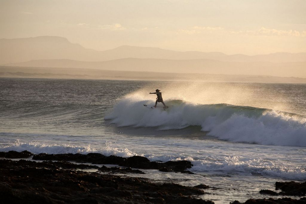 Surfer, Jeffrey's Bay, Eastern Cape, South Africa Vue de l'Eastern Cape en Afrique du Sud.